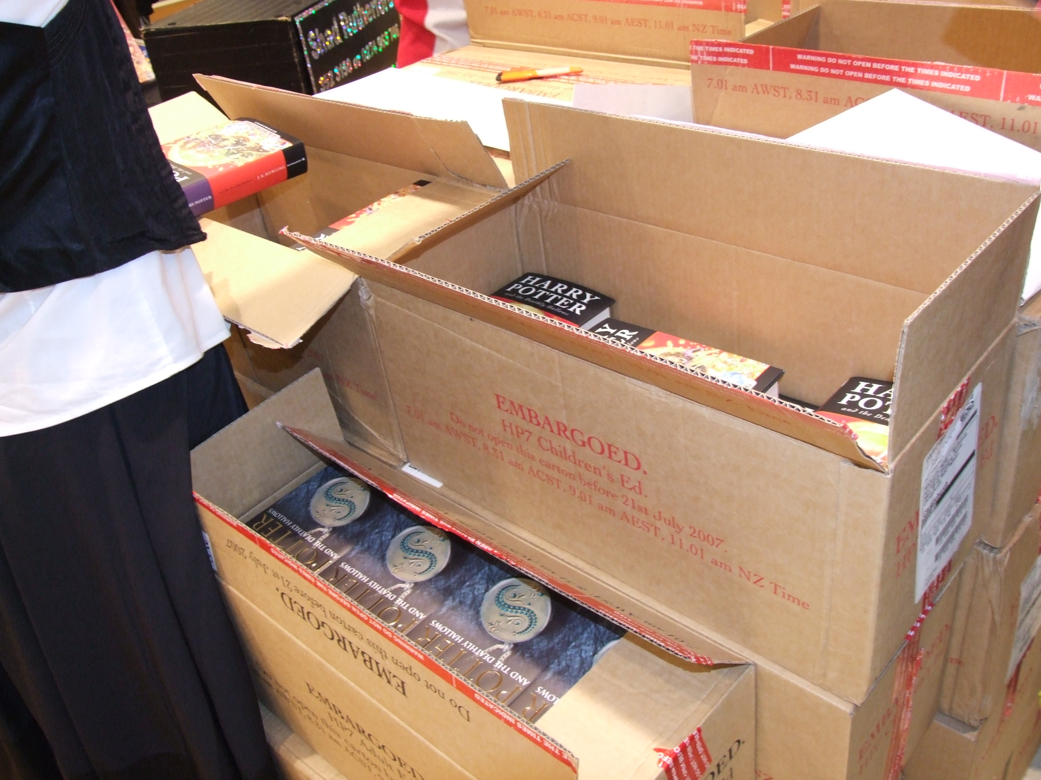 A stack of Harry Potter boxes that have been embarged until the designated opening time. Harry Potter and the Deathly Hallows.